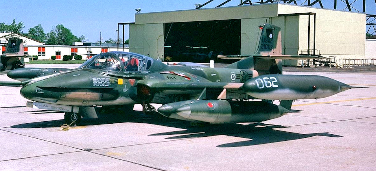 103d Tactical Air Support Squadron Cessna A-37B Dragonfly 73-1062